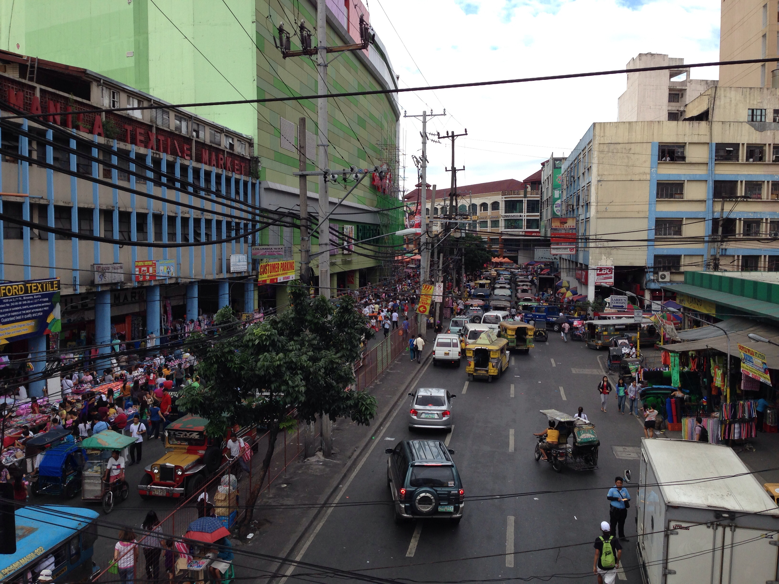 Recto Avenue, Manila's "Main Street." View from the Abad Santos overpass.